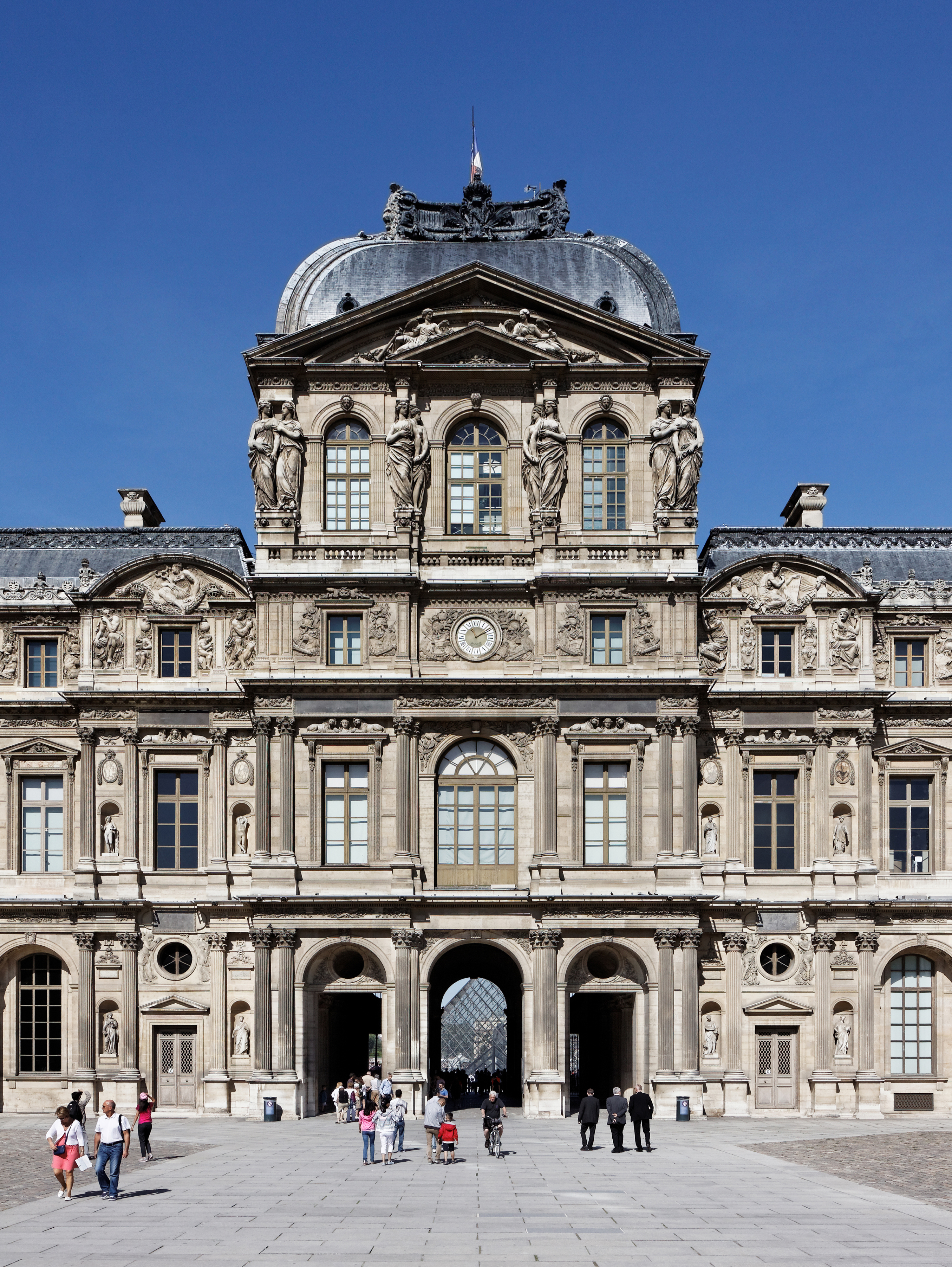 Pavillon de l'Horloge, Louvre Museum, Paris, France.